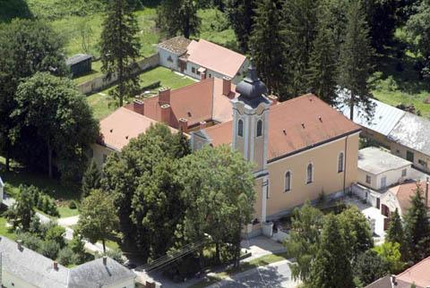 Bakonybél, Veszprém county, Hungary, aerial photography Szent Mauríciusz római katolikus templom This is a photo of a monument in Hungary. Identifier: 9606